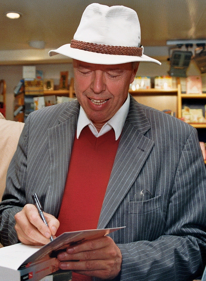 German writer Heinrich von der Haar signs a copy of his book Mein Himmel brennt at the bookshop Volk (Buchhandlung Volk) in Recke, Kreis Steinfurt, North Rhine-Westphalia, Germany.